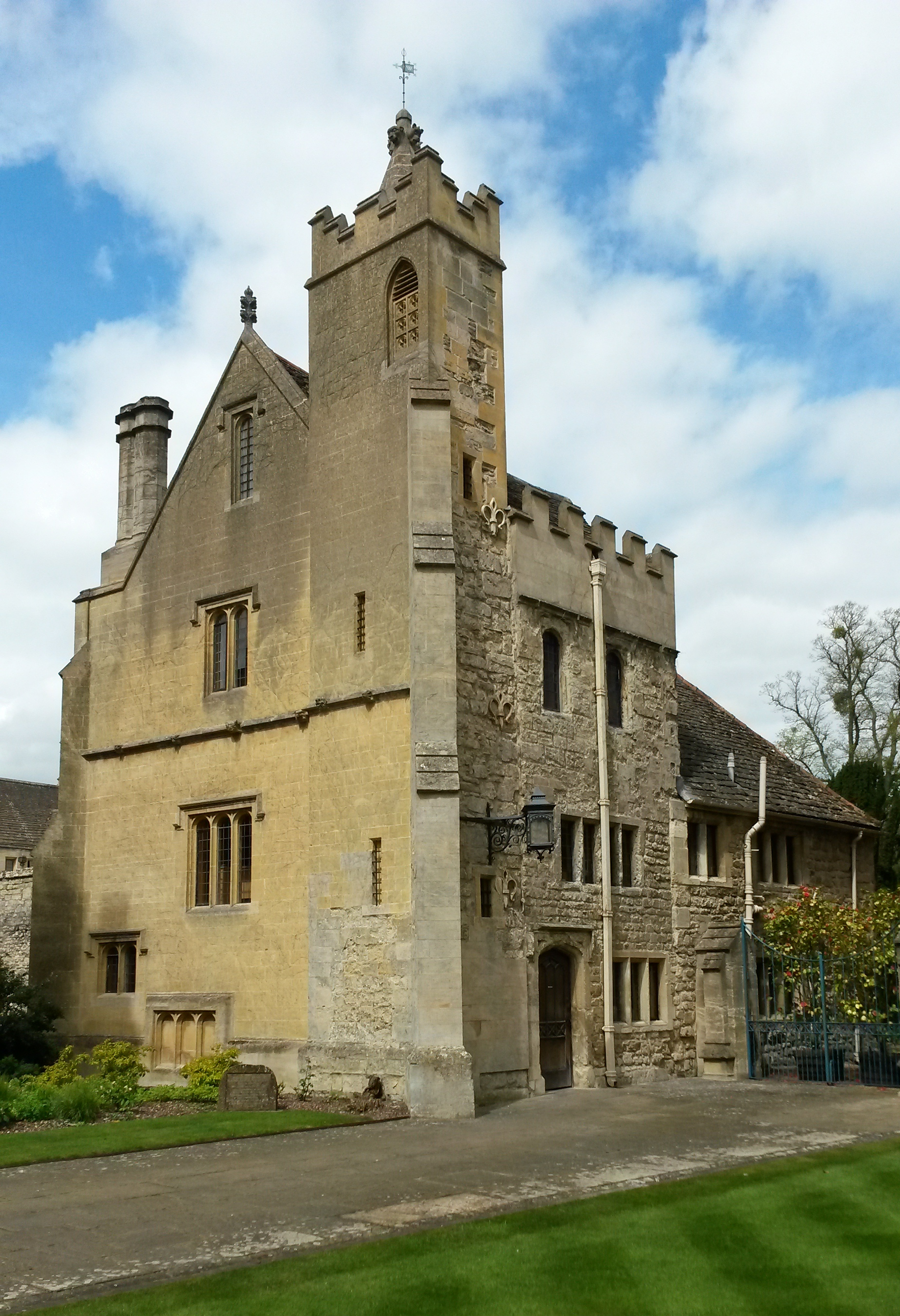 The Grammar Hall (also called Old Grammar Hall) of Magdalen College, Oxford.